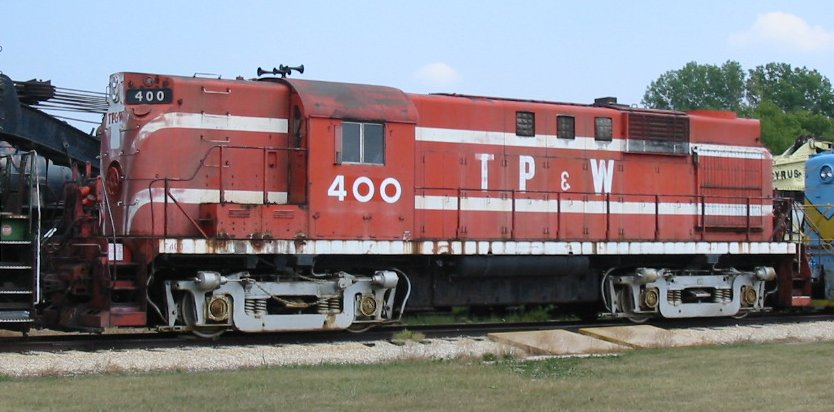 Toledo, Peoria and Western Railroad number 400, an ALCO RS-11, on display at the Illinois Railway Museum, in Union, Illinois